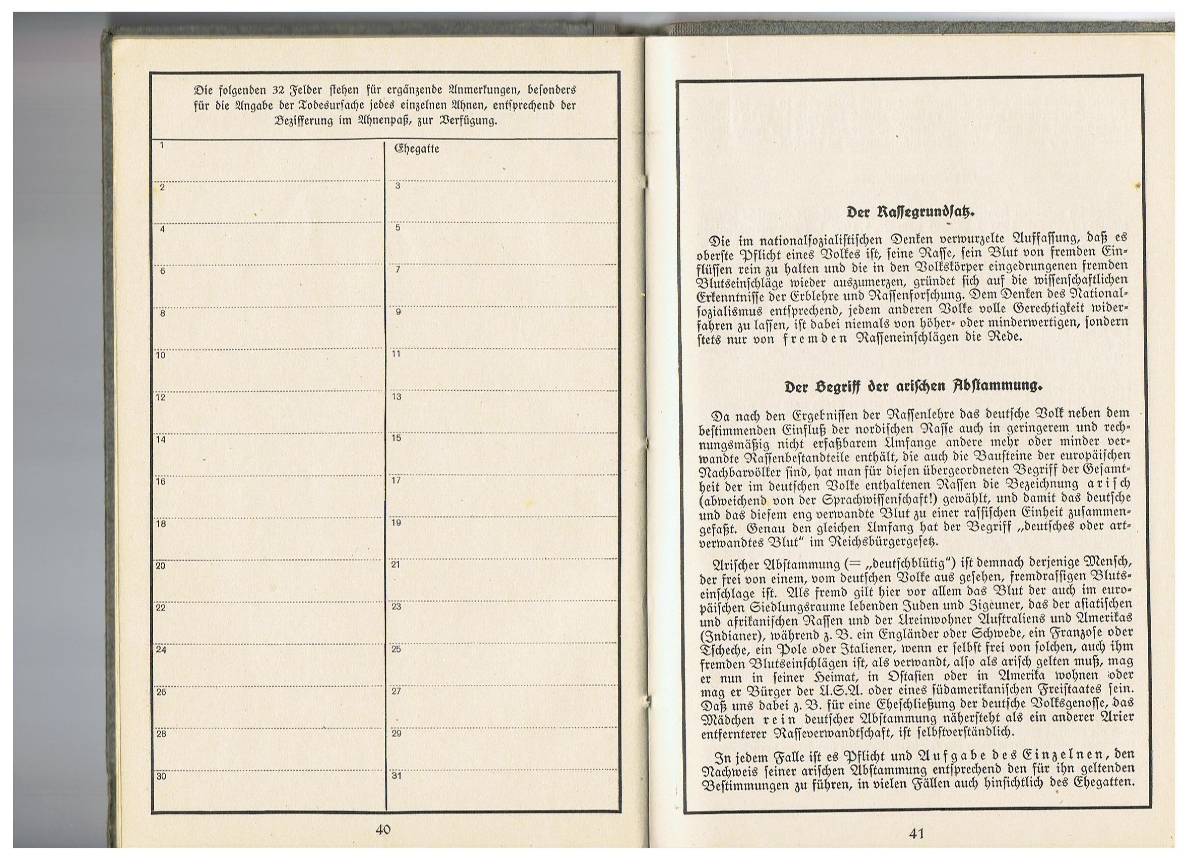 excerpts from an Aryan certificate by the "Reichsverband der Standesbeamten Deutschlands (RDSD)" Union of Registrars of the Reich in Germany, 31st Edition (with death certificates) by Verlag für Standesamtswesen G.m.b.H. Berlin SW 61